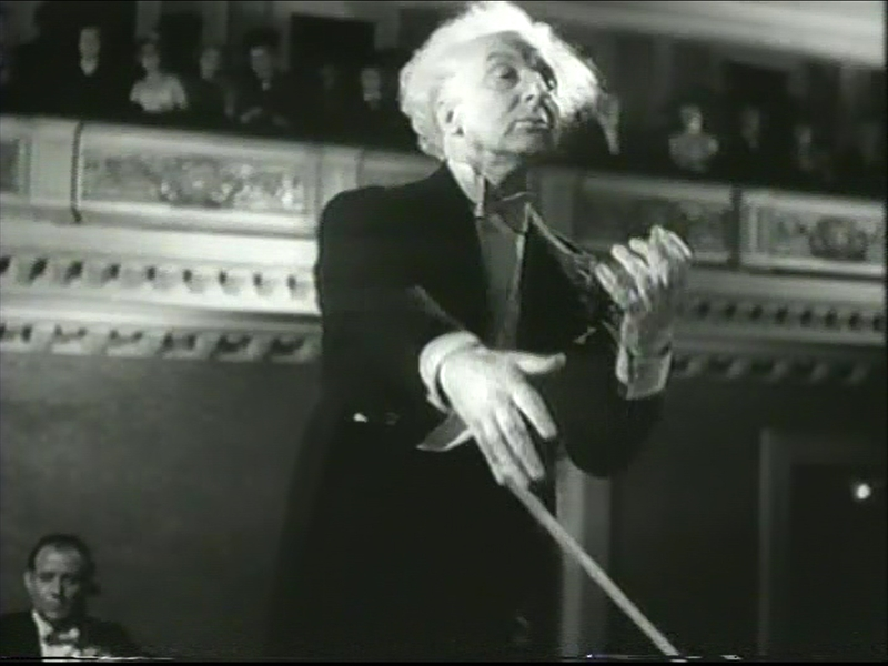 Leopold Stokowski from "Carnegie Hall".